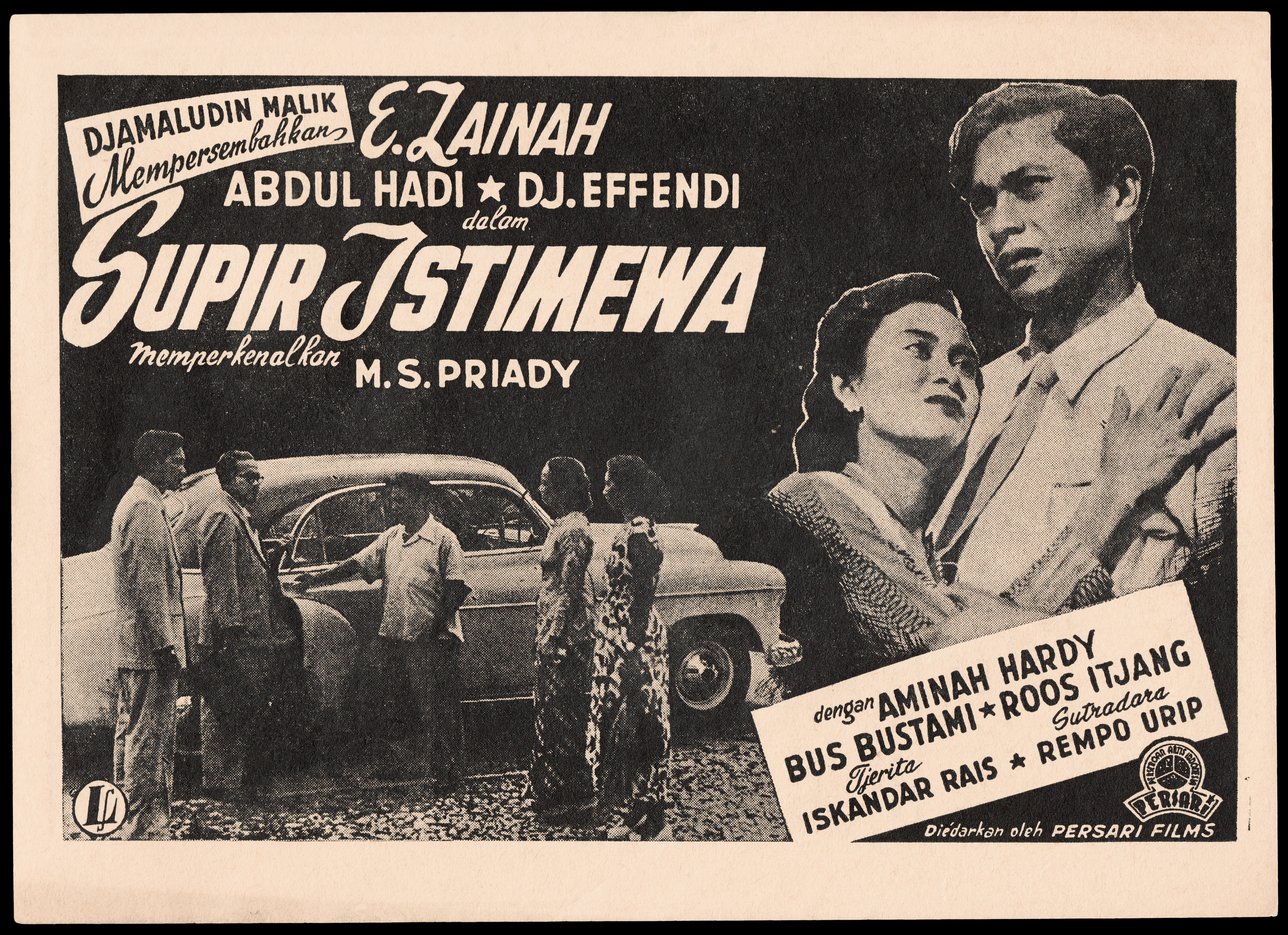 Obverse for a pamphlet advertising the 1954 Indonesian film Supir Istimewa.